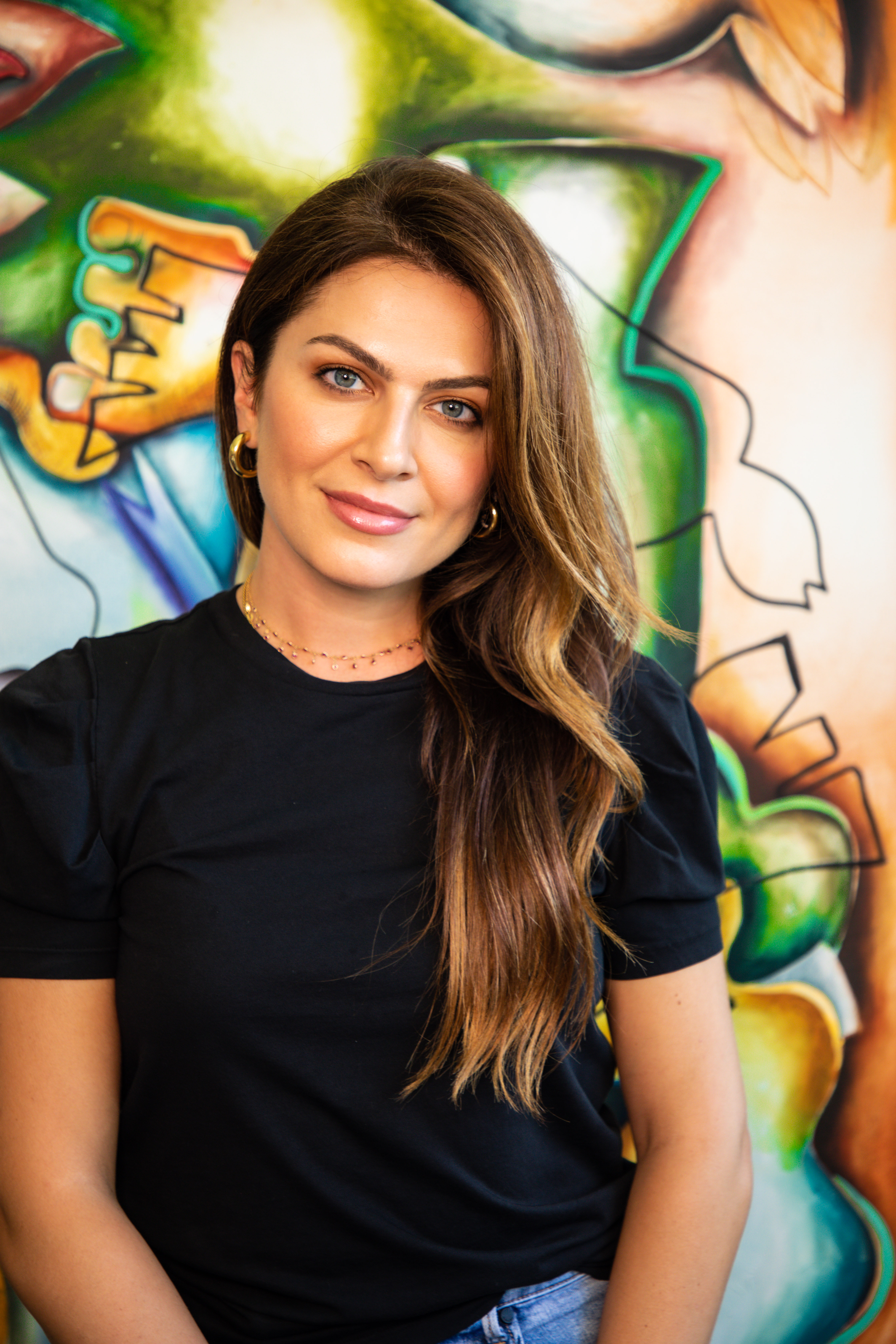 Nechita